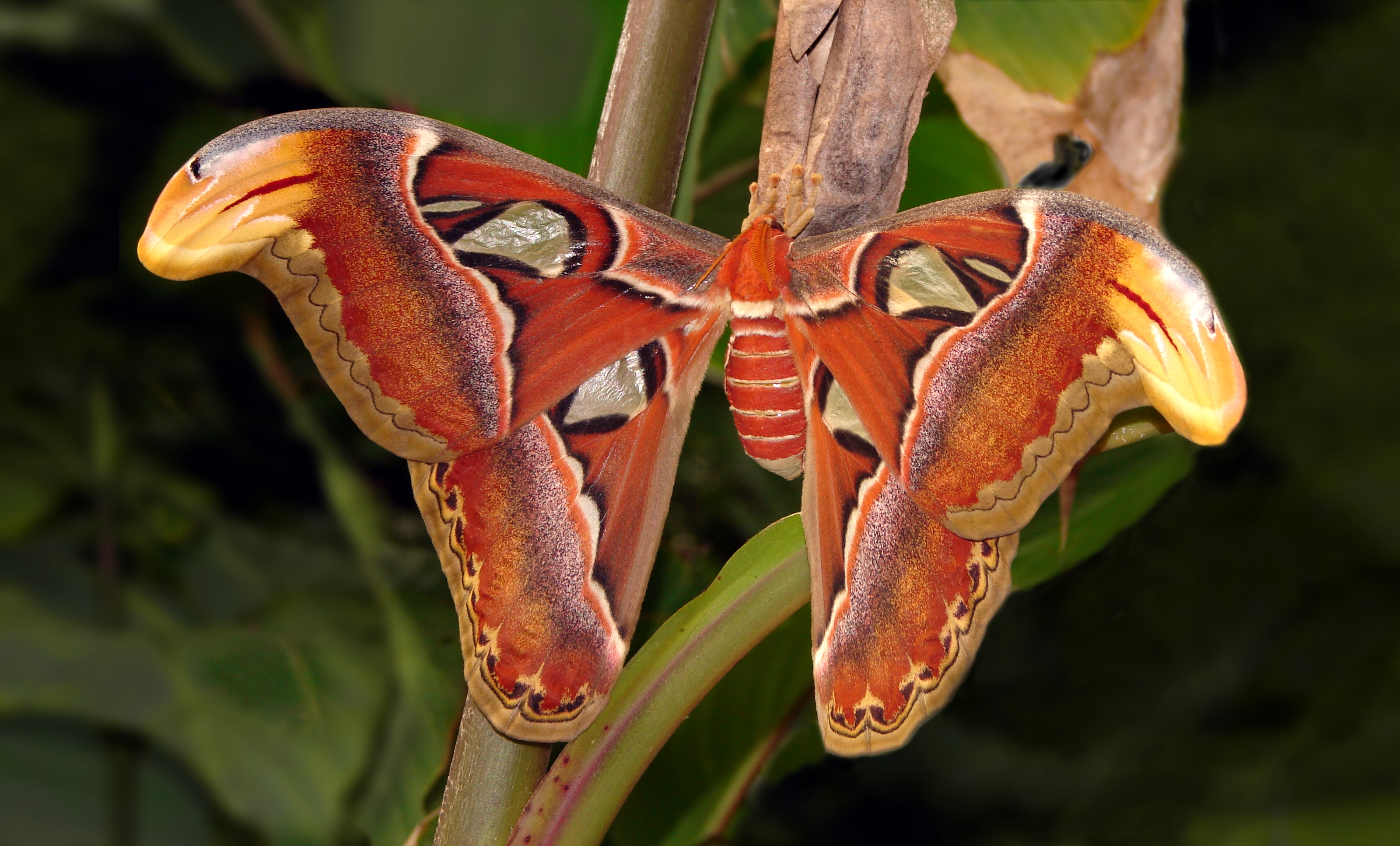 Fully Grown Atlas moth (Attacus atlas, female) from London Zoo. Location: NW1 4RY The Atlas moth (Attacus atlas) is a large saturniid moth found in the tropical and subtropical forests of Southeast Asia, and common across the Malay archipelago. Atlas moths are considered the largest moths in the world in terms of total wing surface area. Their wingspans are also amongst the largest, reaching over 25 cm (10 in). Females are appreciably larger and heavier.